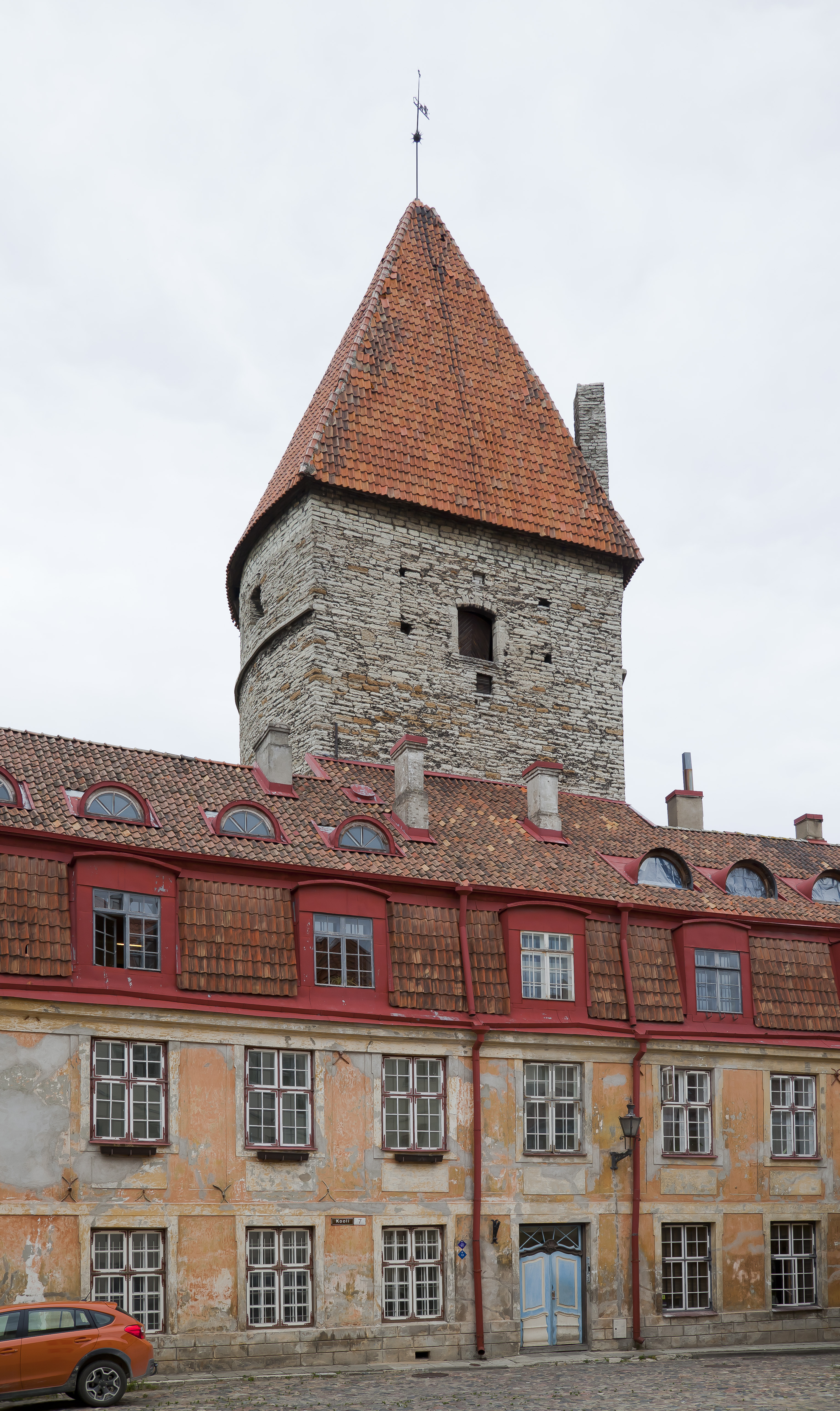 Kooli Street, Tallinn, Estonia